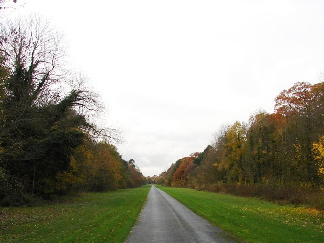 Belgrave Avenue, Eaton Hall This long avenue (over 1 mile) leads from the main road to Eaton Hall itself. The gates can just be made out in the distance.